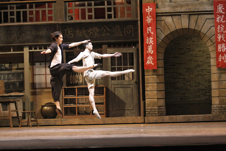 Shanghai Ballet performs a dance adaptation of "In the Mood for Love" at the Majestic Theatre in Shanghai, China, 2010.